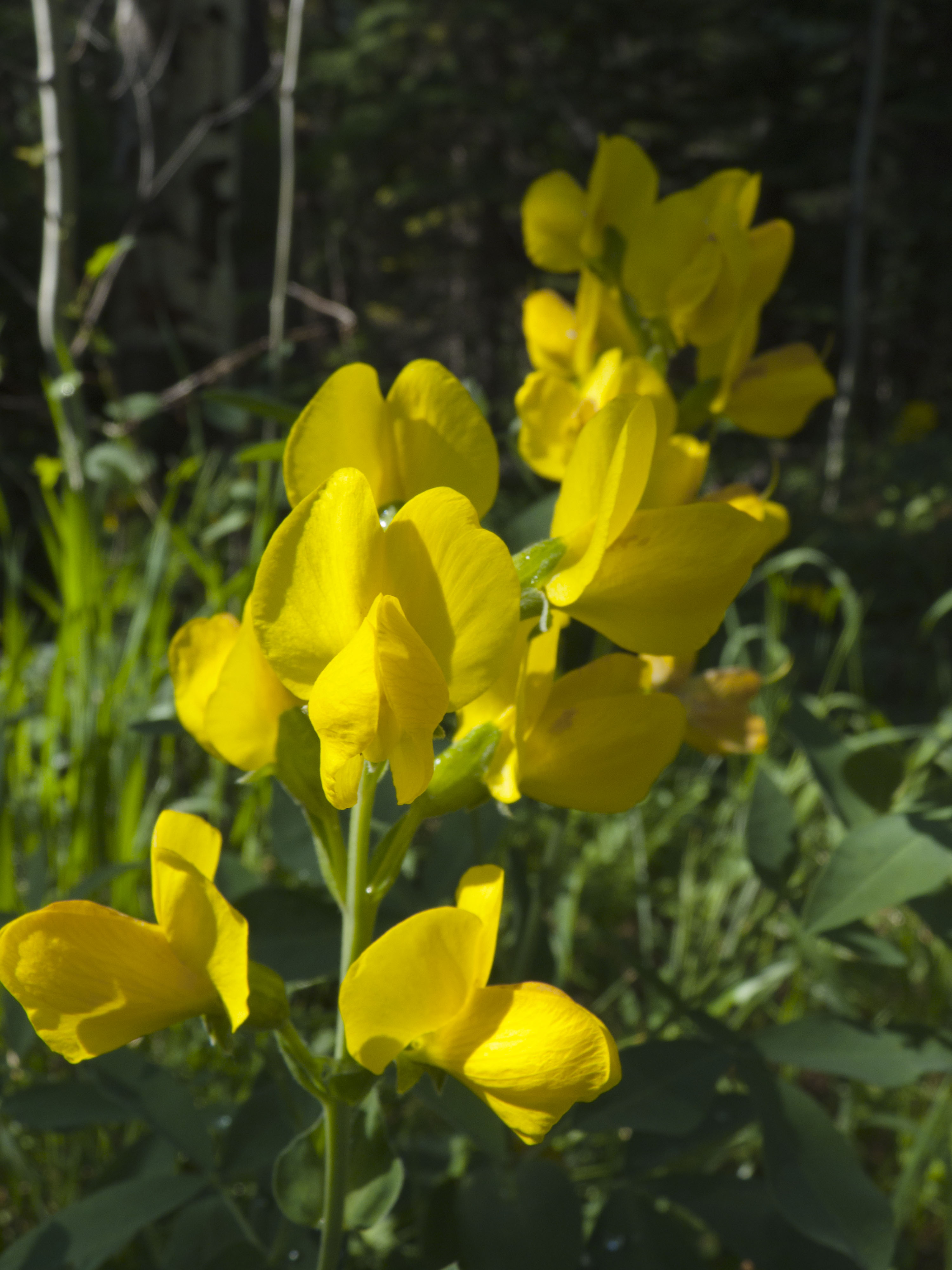 Thermopsis montana